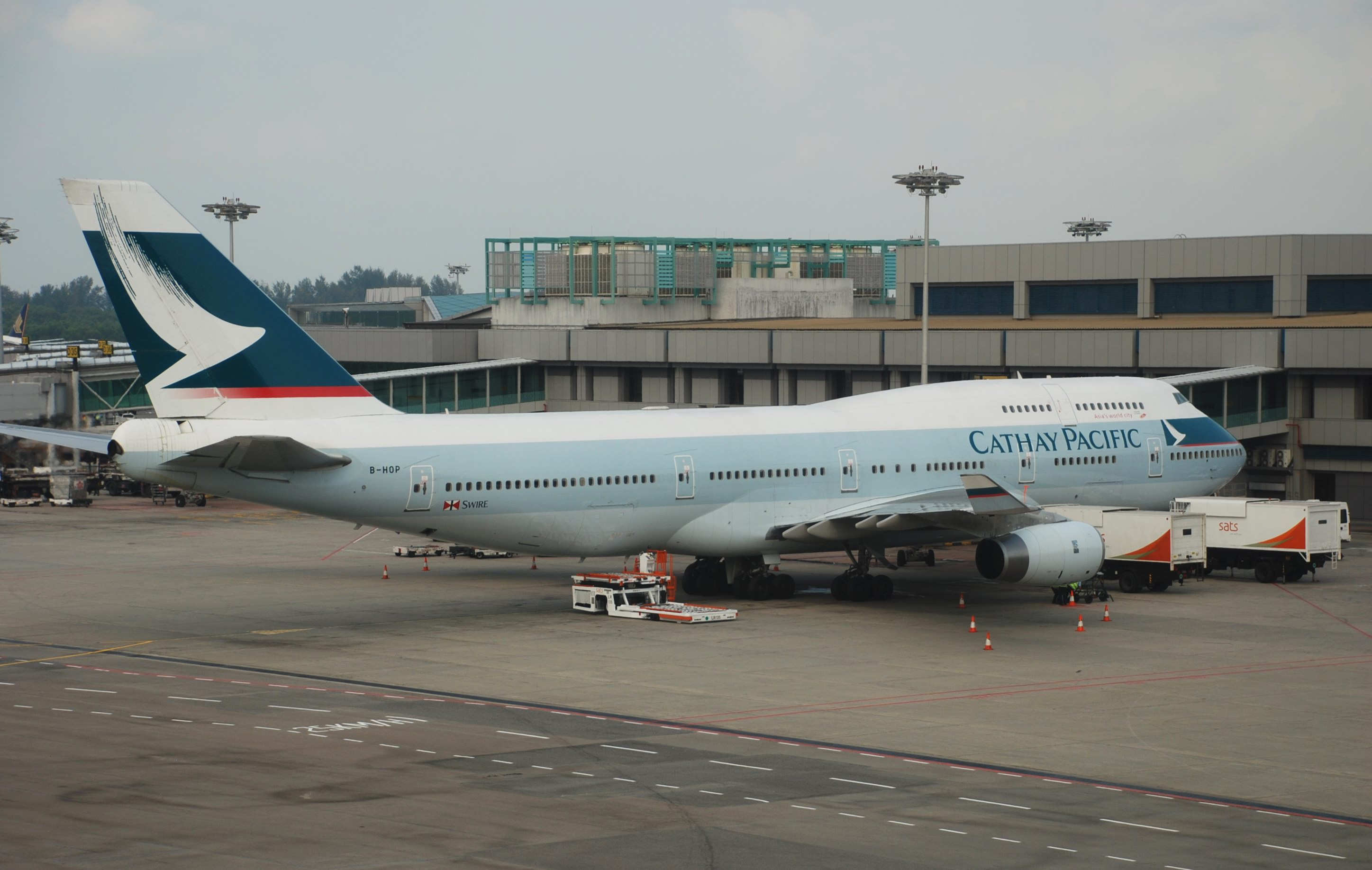 Cathay Pacific Boeing 747-400 (B-HOP) at Singapore Changi Airport.